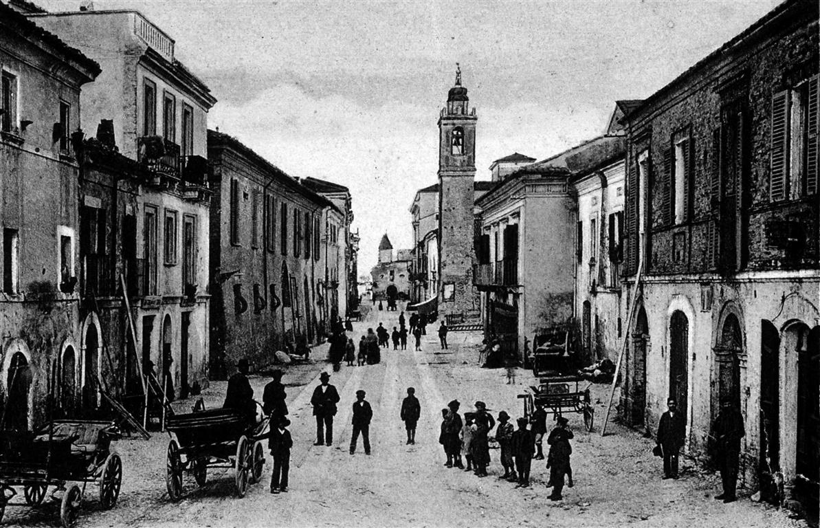 historyc pescara